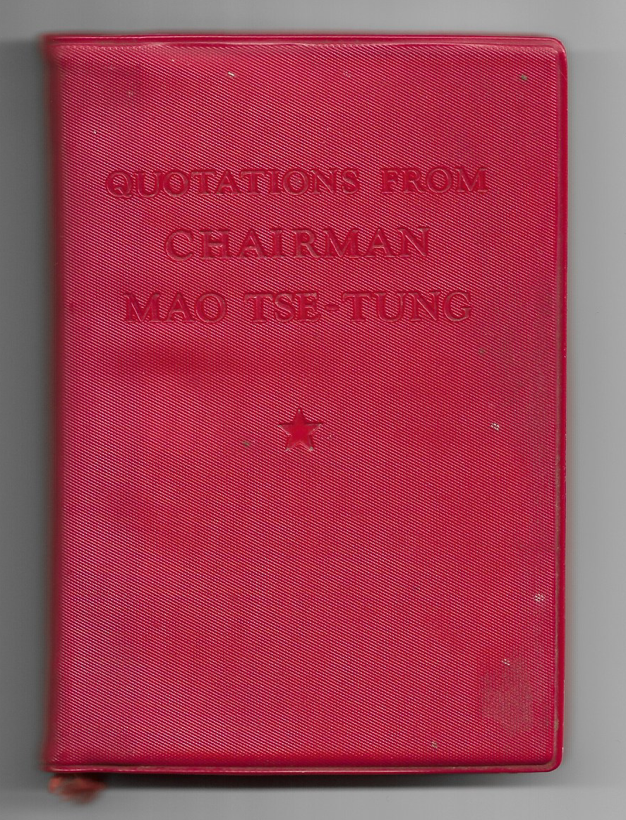 Scan of the cover of my personal copy of the Little Red Book. First Edition.